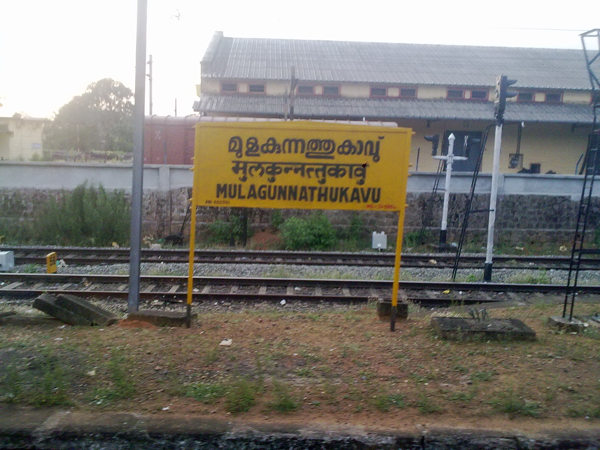 Mulankunnathukavu railway station in Thrissur city